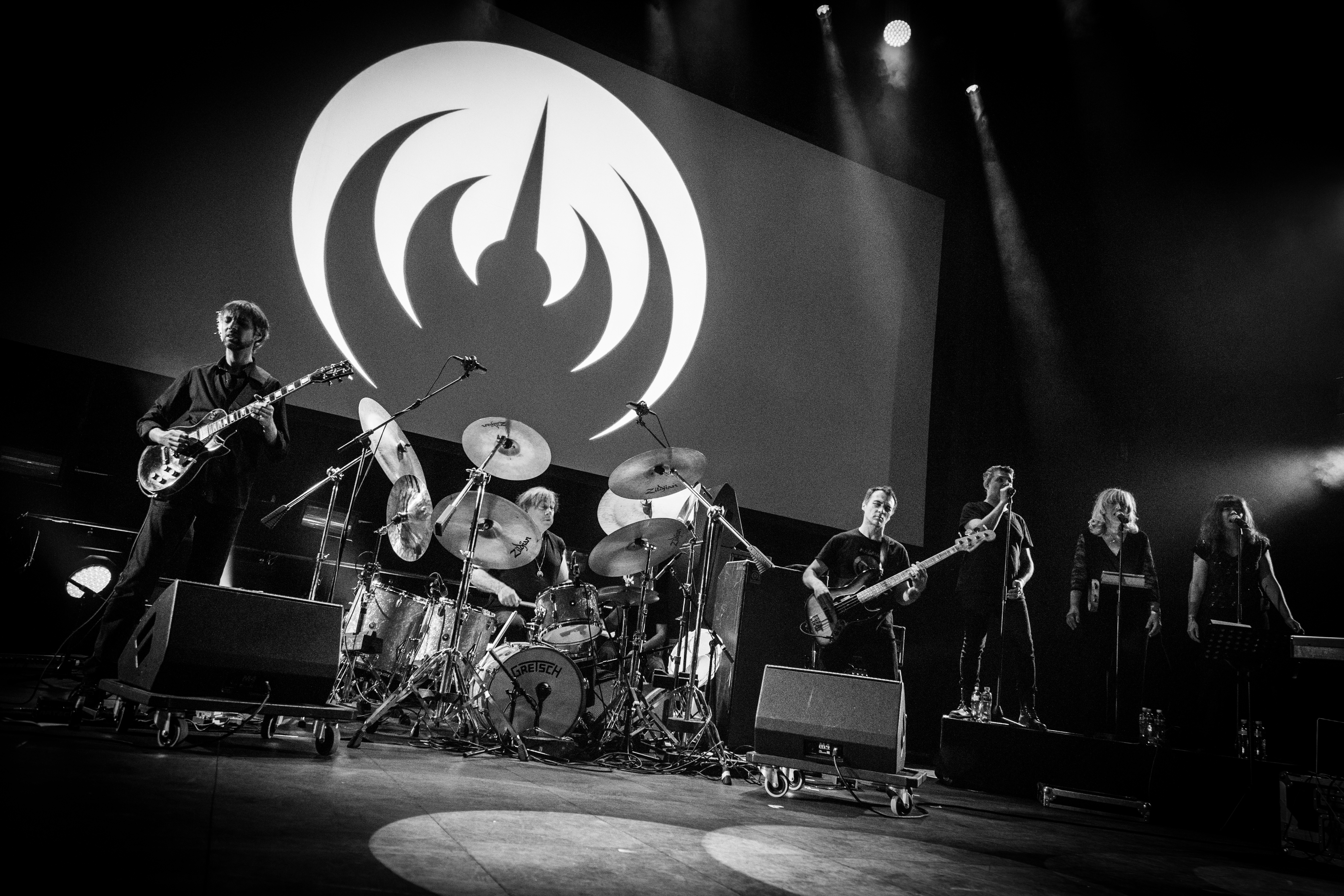 MAGMA live at Roadburn Festival, Tilburg, April 2017